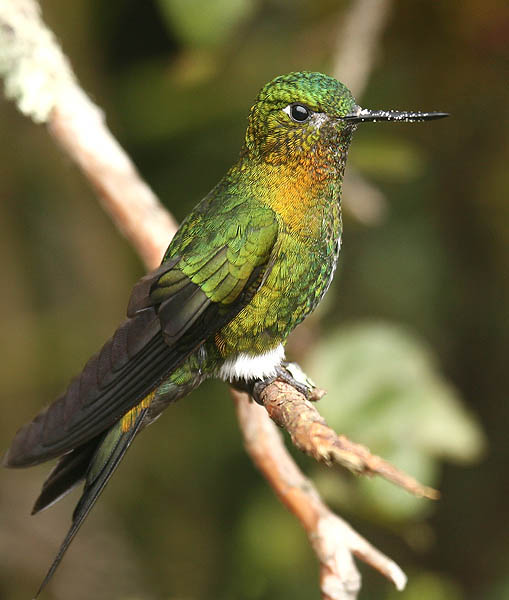 This was a fairly common visitor to the feeders along the trail, but not as common as Sapphire-vented Puffleg and a few others. Fantastic bird! Yanacocha, Ecuador. 3/8/2007